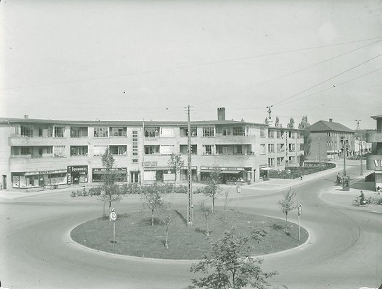 Virum Torn in Virum north of Copenhagen, Denmark